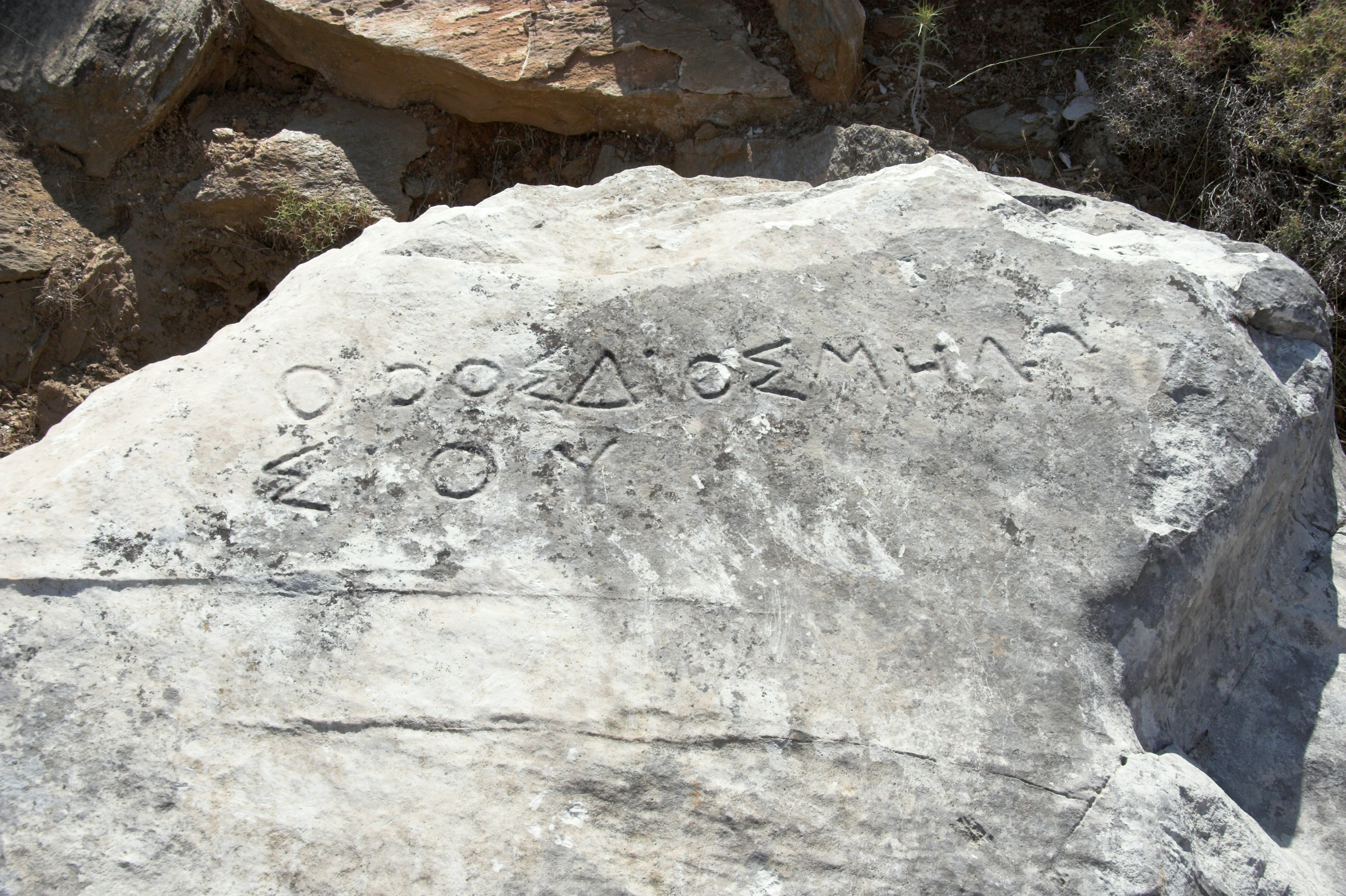 Ancient Greek inscription: "Boundaries of the sacred area of Zeus Pastoral. (H)OROS DIOS MY...SIOY." Naxos, Zas, on the way to Ag. Marina.